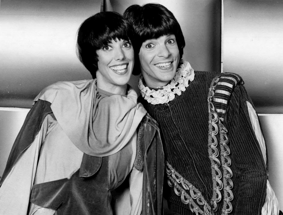 Photo of Lorene Yarnell and Robert Shields.